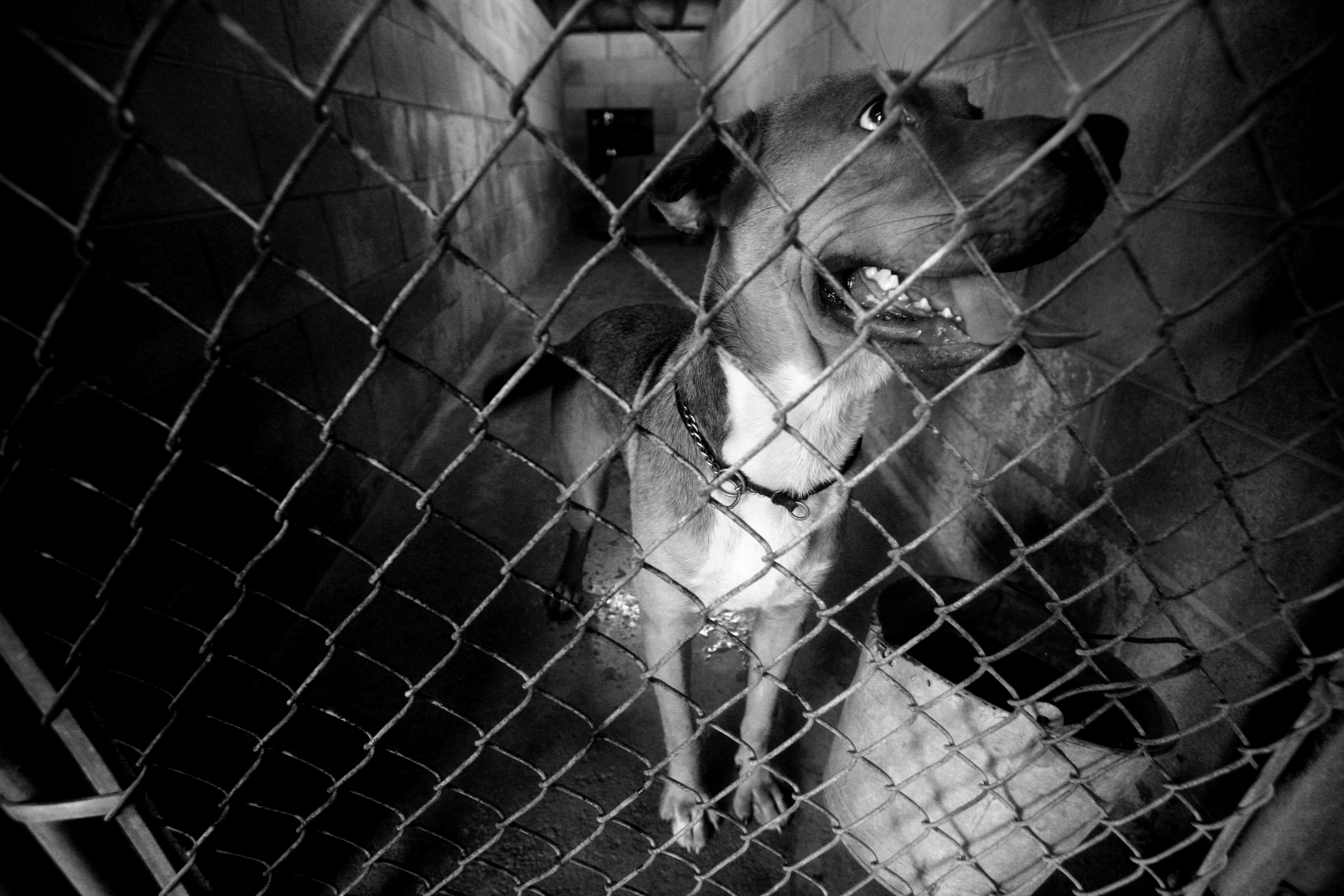 Many pets, like this 7-month-old dog, go to the Cherry Point Animal Shelter after they are abandoned by their owners.